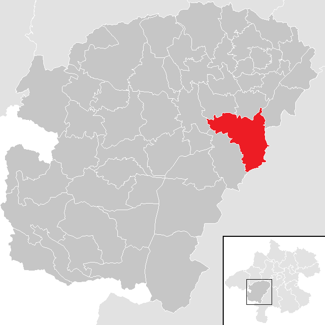 District Vöcklabruck